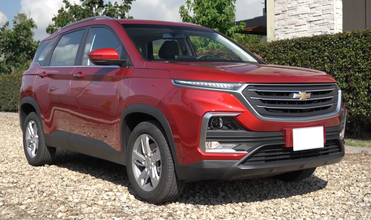 Chevrolet Captiva 2020 (Colombia) front view